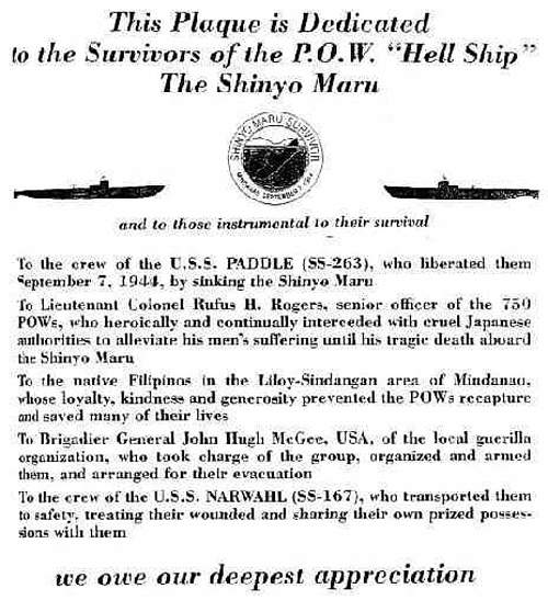 Plaque dedicated to the survivors of the P.O.W. Hell Ship Shinyo Maru, sunk by USS Paddle (SS-263) on 7 September 1944.